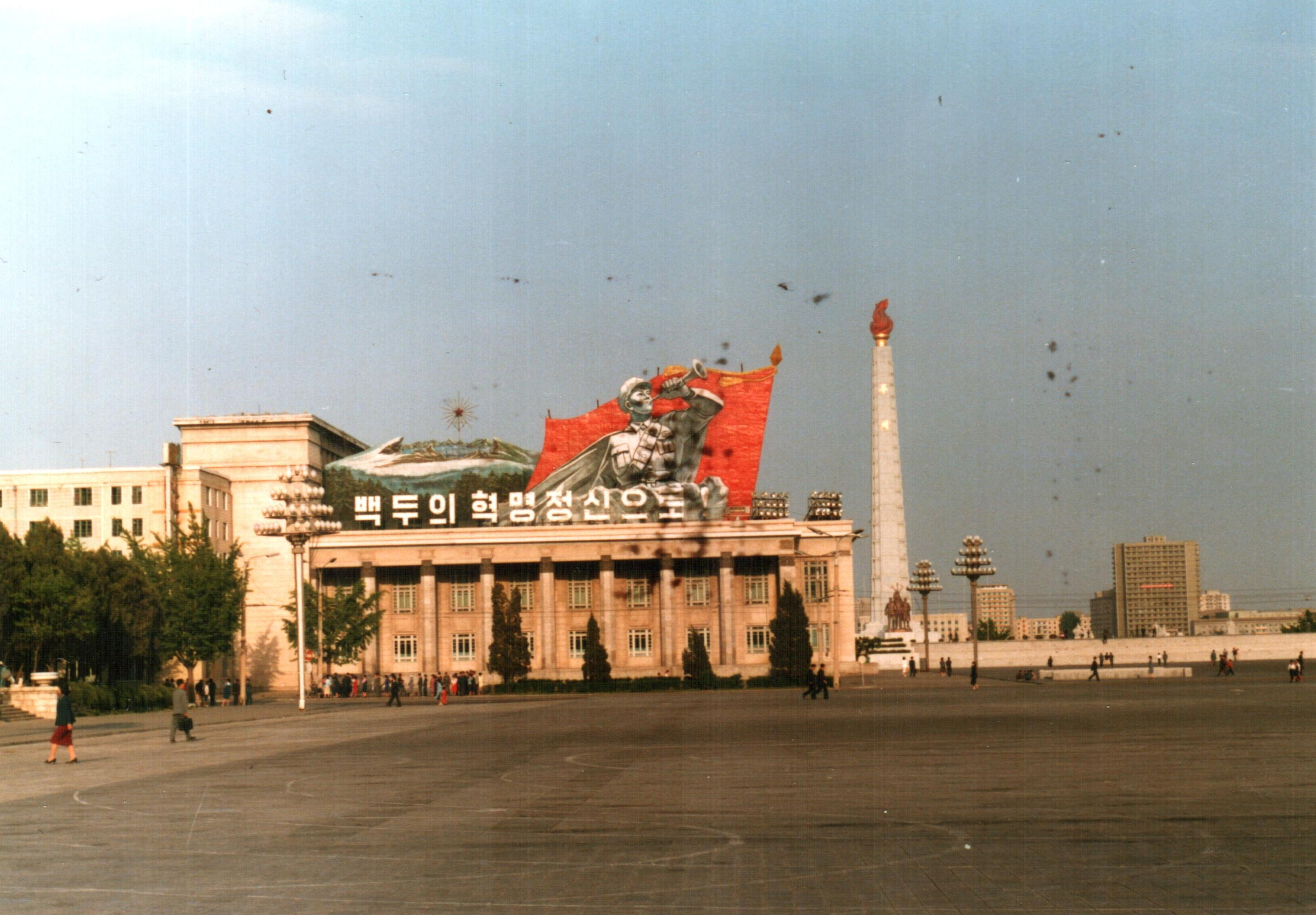 Live in May, 1988. Pyongyang, North Korea. I had to travel to China, then to North Korea. One day – just relaxing in Budapest – next day on a jet over the gulf. We saw the canon firing beneath (Iran-Iraq war, 1980-1988). North Korea, China was a mystery, an other planet at the time. Flying homebond I read the chinese newspaper: János Kádár is gone. Published under Creative Commons in Metapolisz DVD line. Paper, Zenit-E. Tags: North Korea 1988 People’s Republic of Korea Iran-Iraq War János Kádár Zenit E Metapolisz